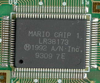 Super Nintendo co-processor